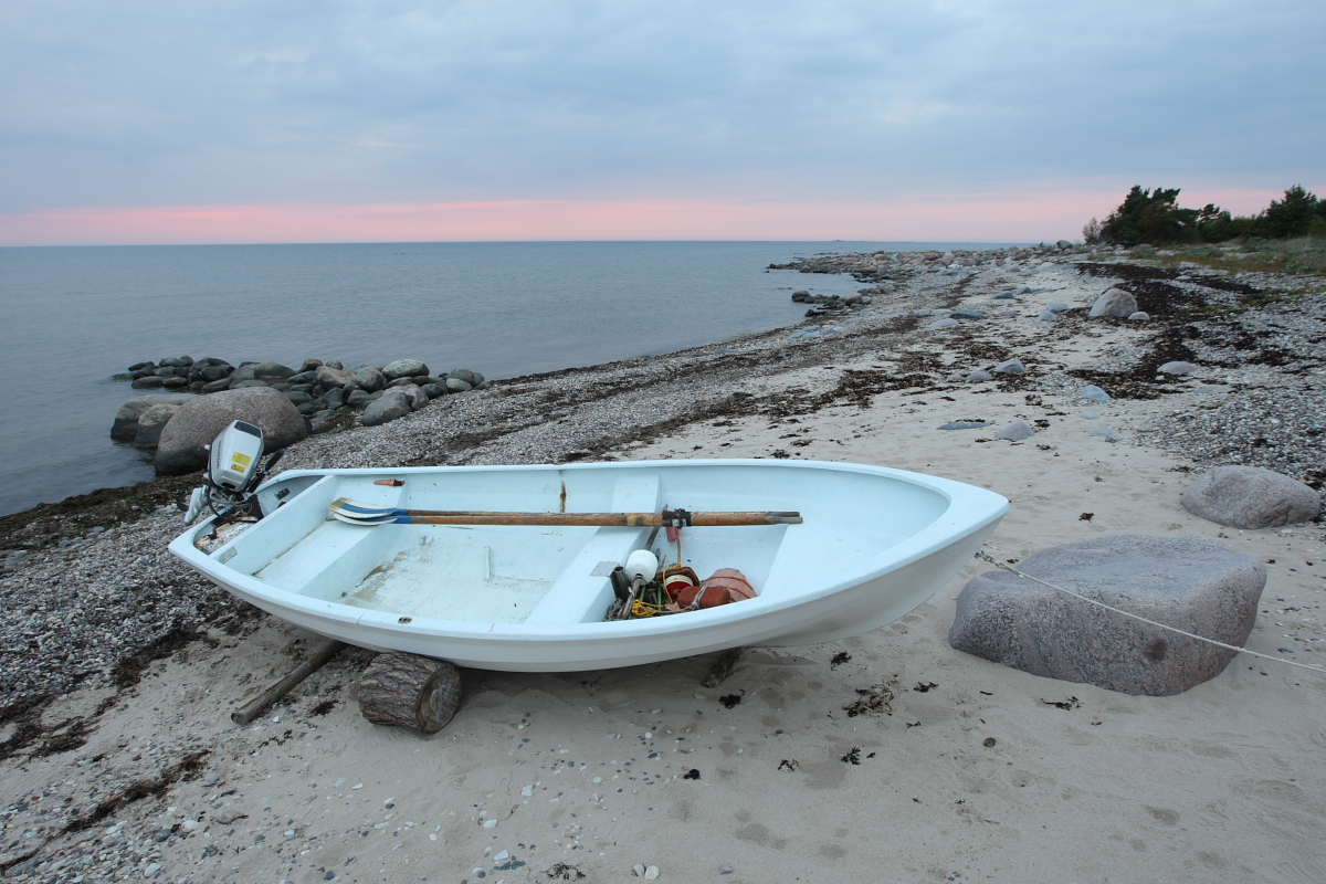 Coast of Kihnu, Pärnu County, Estonia